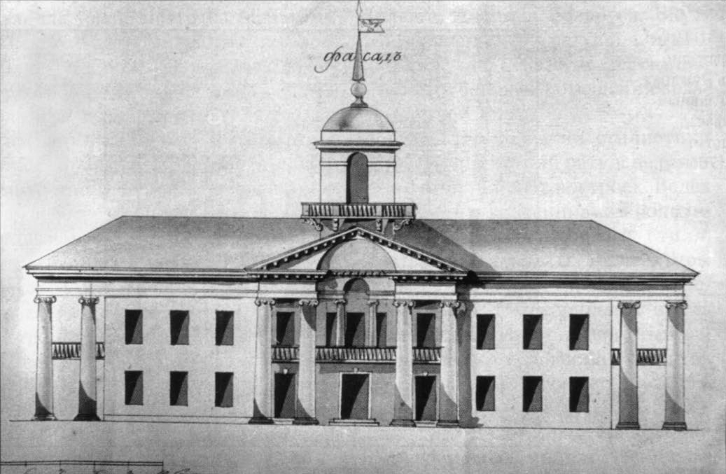 City Hall, Miensk